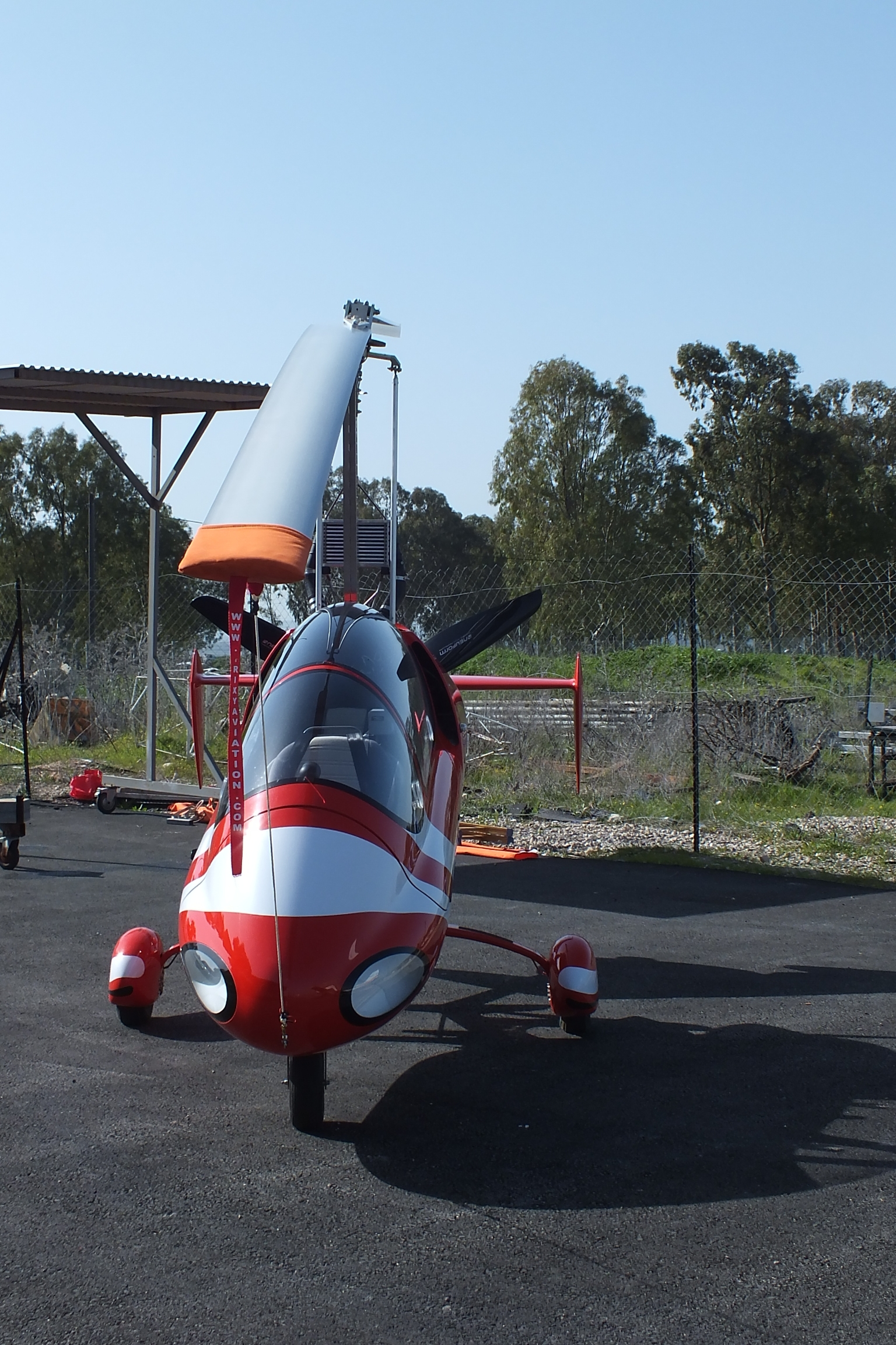 4X-OFS at Megido Airstrip